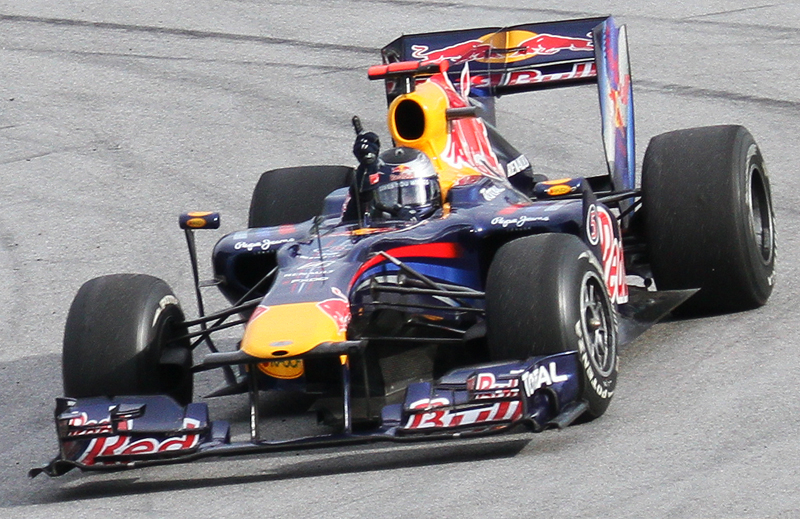 Formula One 2010 Rd.3 Malaysian GP: Sebastian Vettel (Red Bull) won the race.